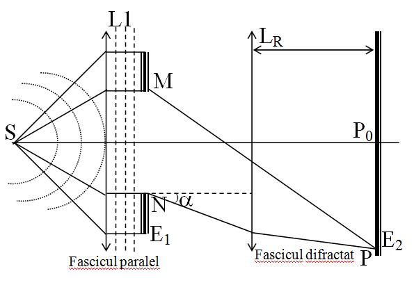 difractia